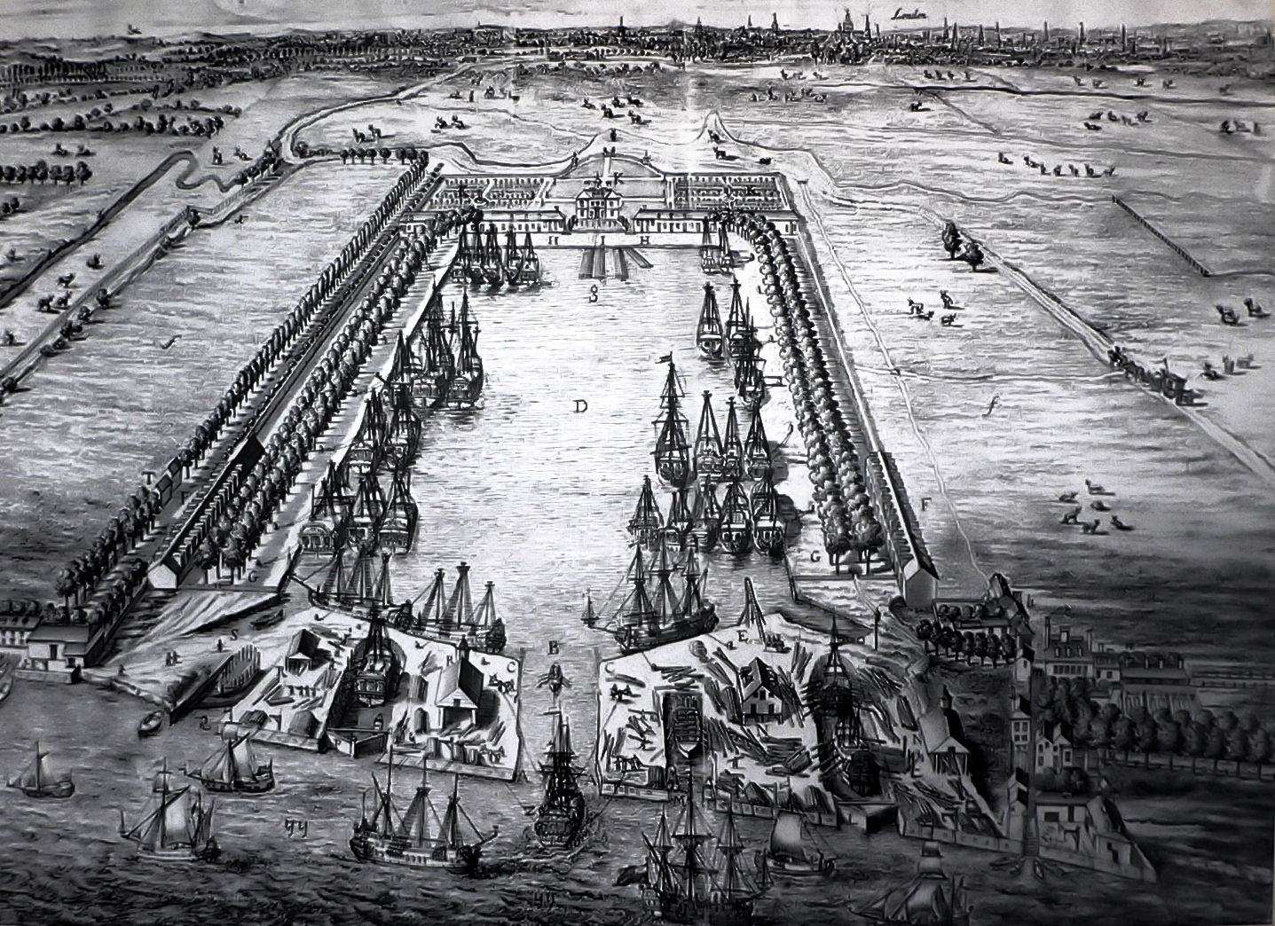 View of the Howland Great Wet Dock in 1717 looking west across the Rotherhithe peninsula. The lines of trees acted as windbreaks to protect shipping.